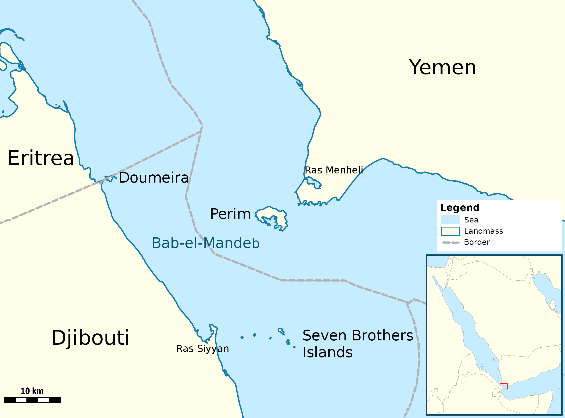 map of Bab-el-Mandeb